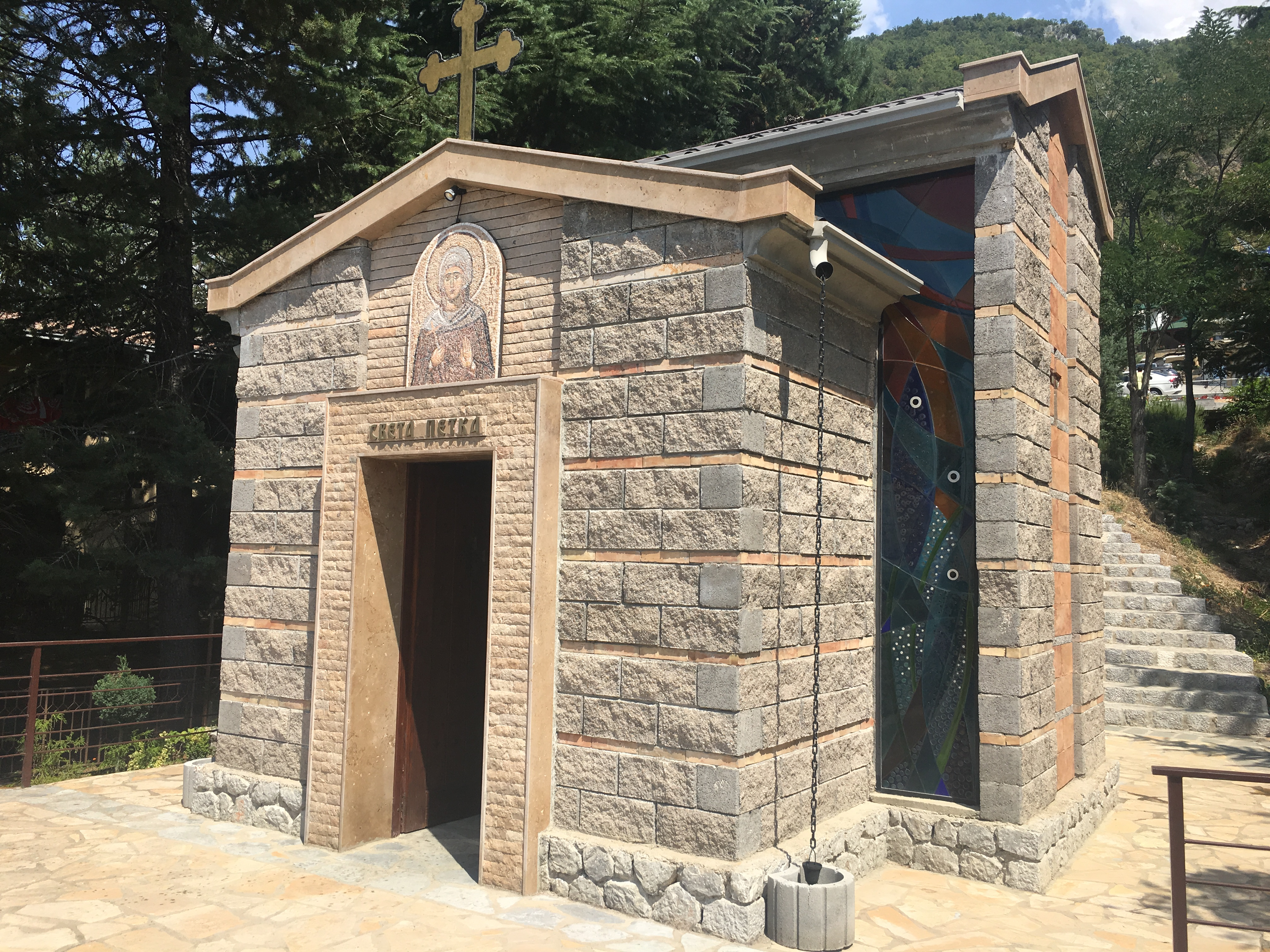 St. Petka Church in the village of Lagadin